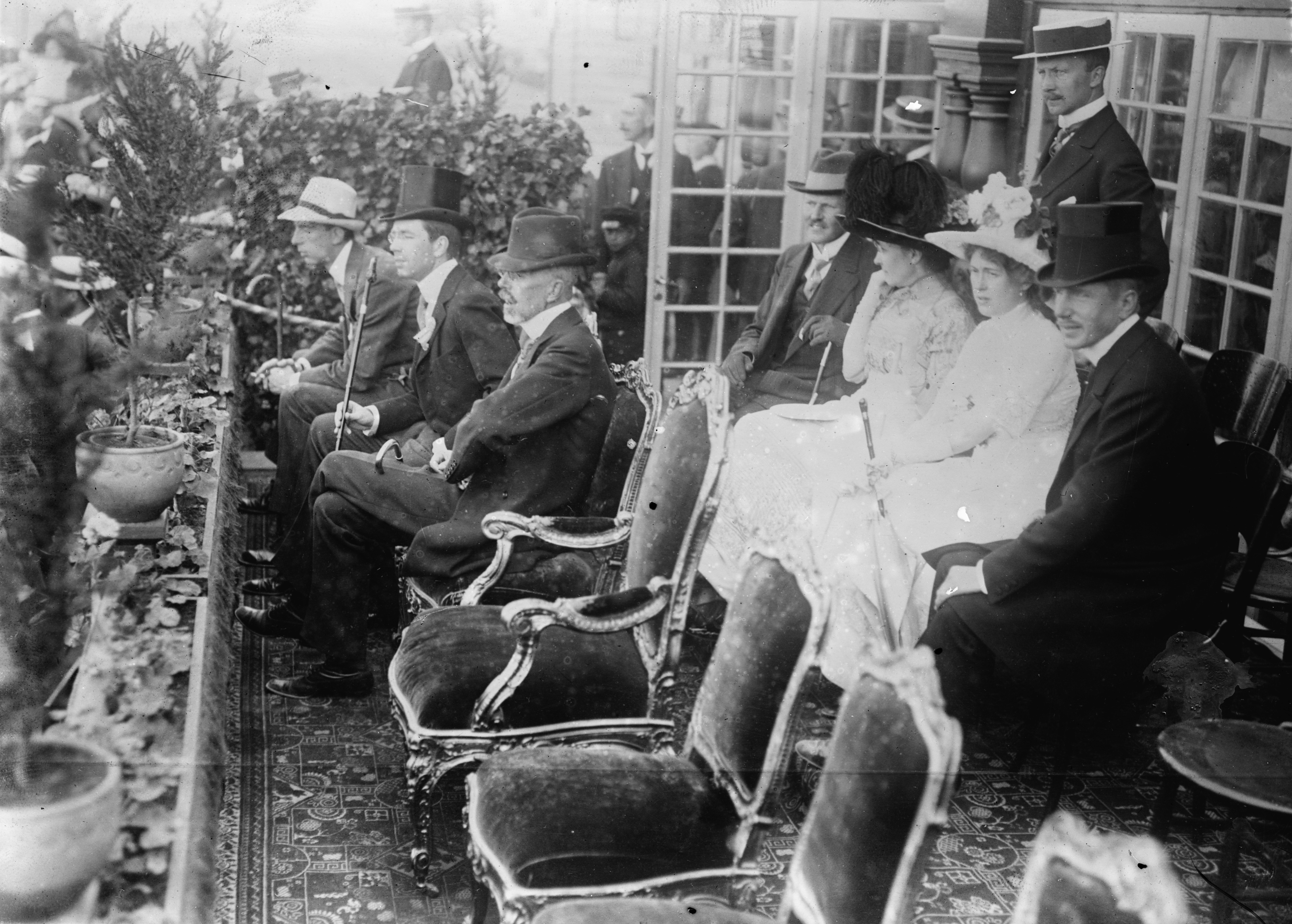 Prince William of Sweden - Crown Prince, King Sweden at Olympic games